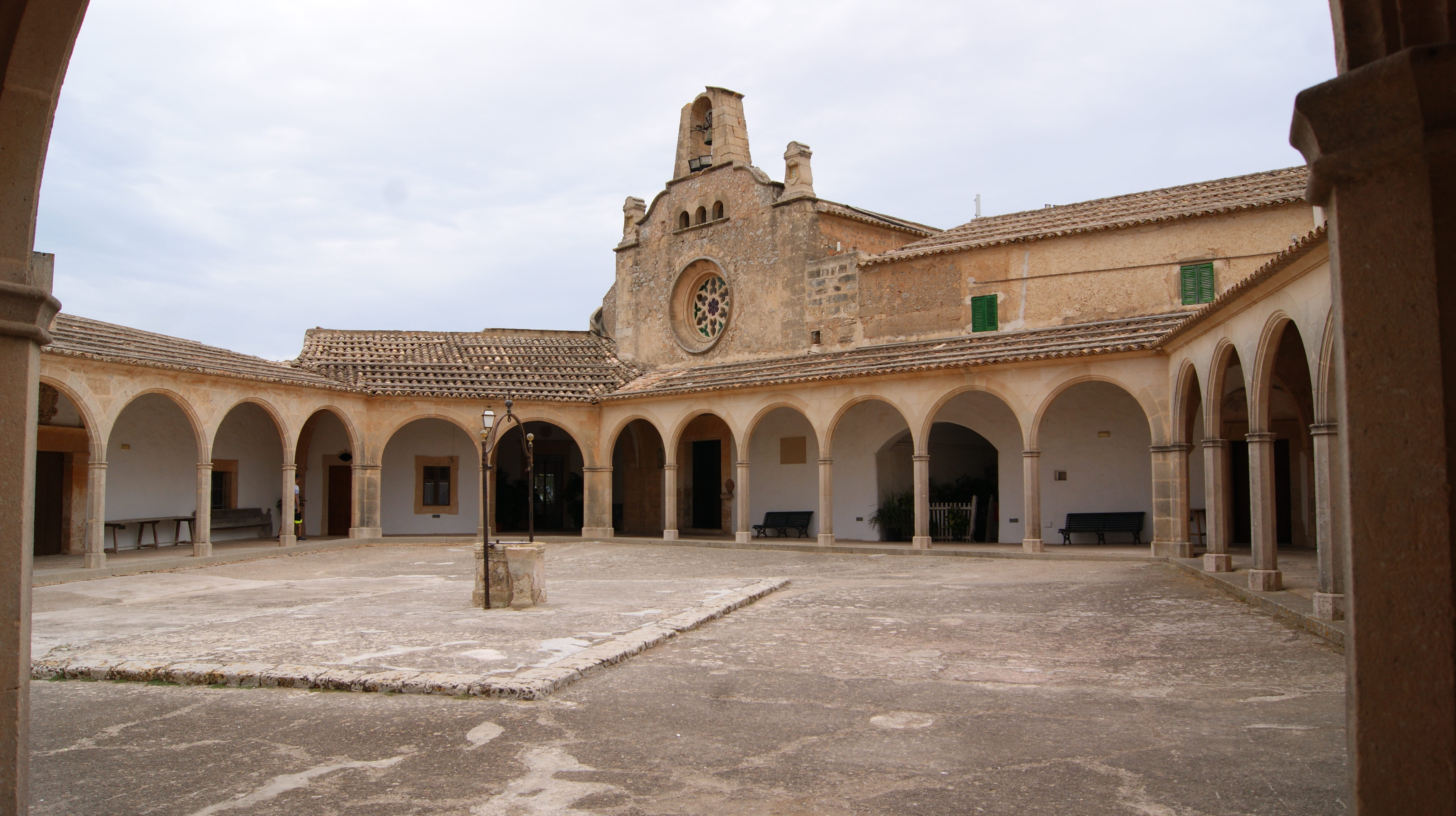 Santuari de Monti-Sión (former monastery and school) near Porreres on Mallorca.